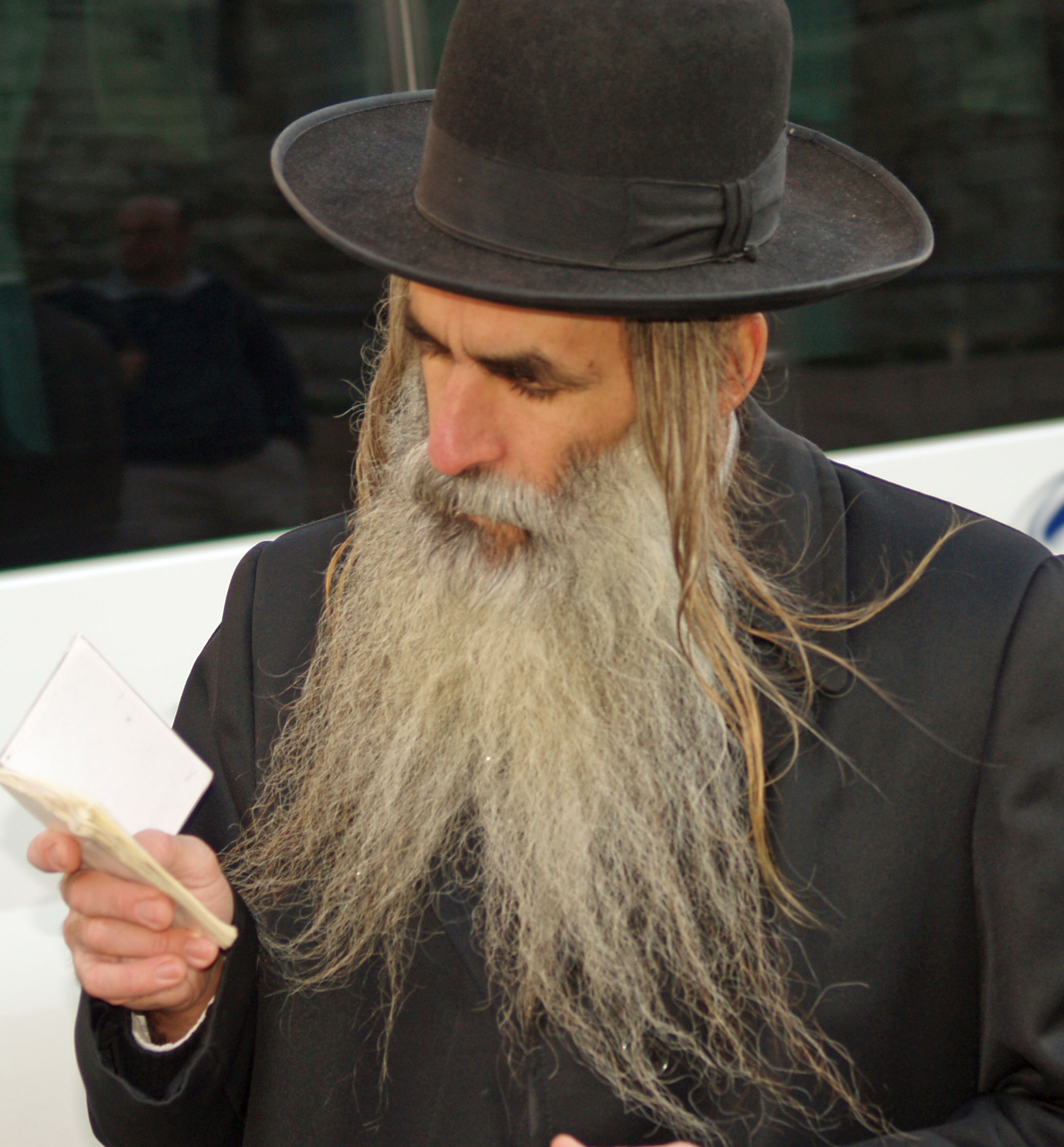 Orthodox Man with Beard in Jerusalem